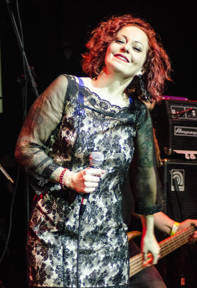 Anneke van Giersbergen, 2015.